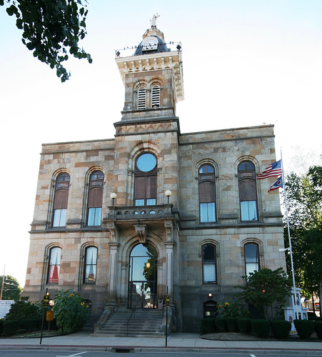 COLUMBIANA COURTHOUSE 2-4-09